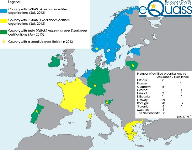 Organisations certifies with EQUASS